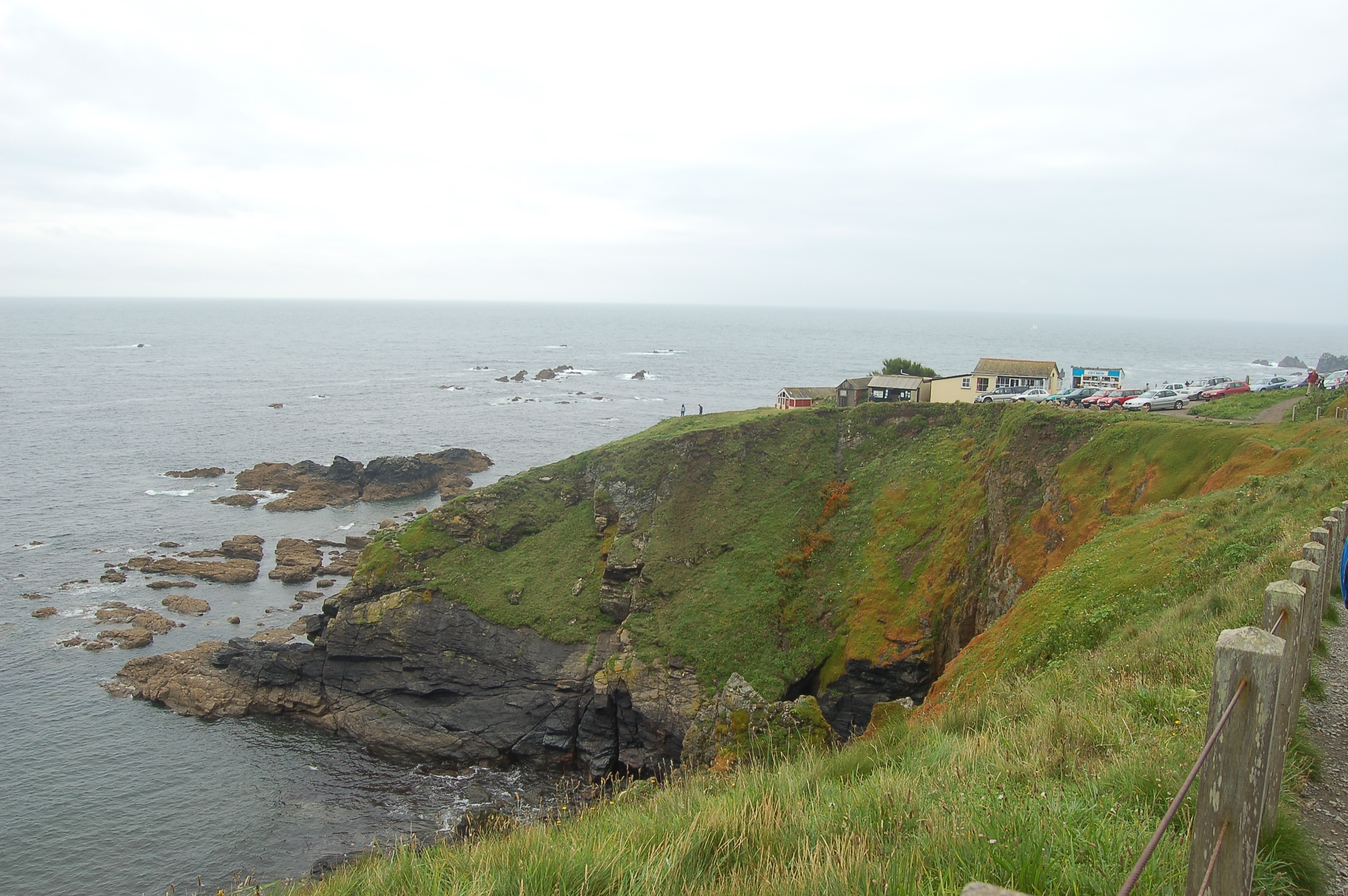 Lizard Point, Cornwall